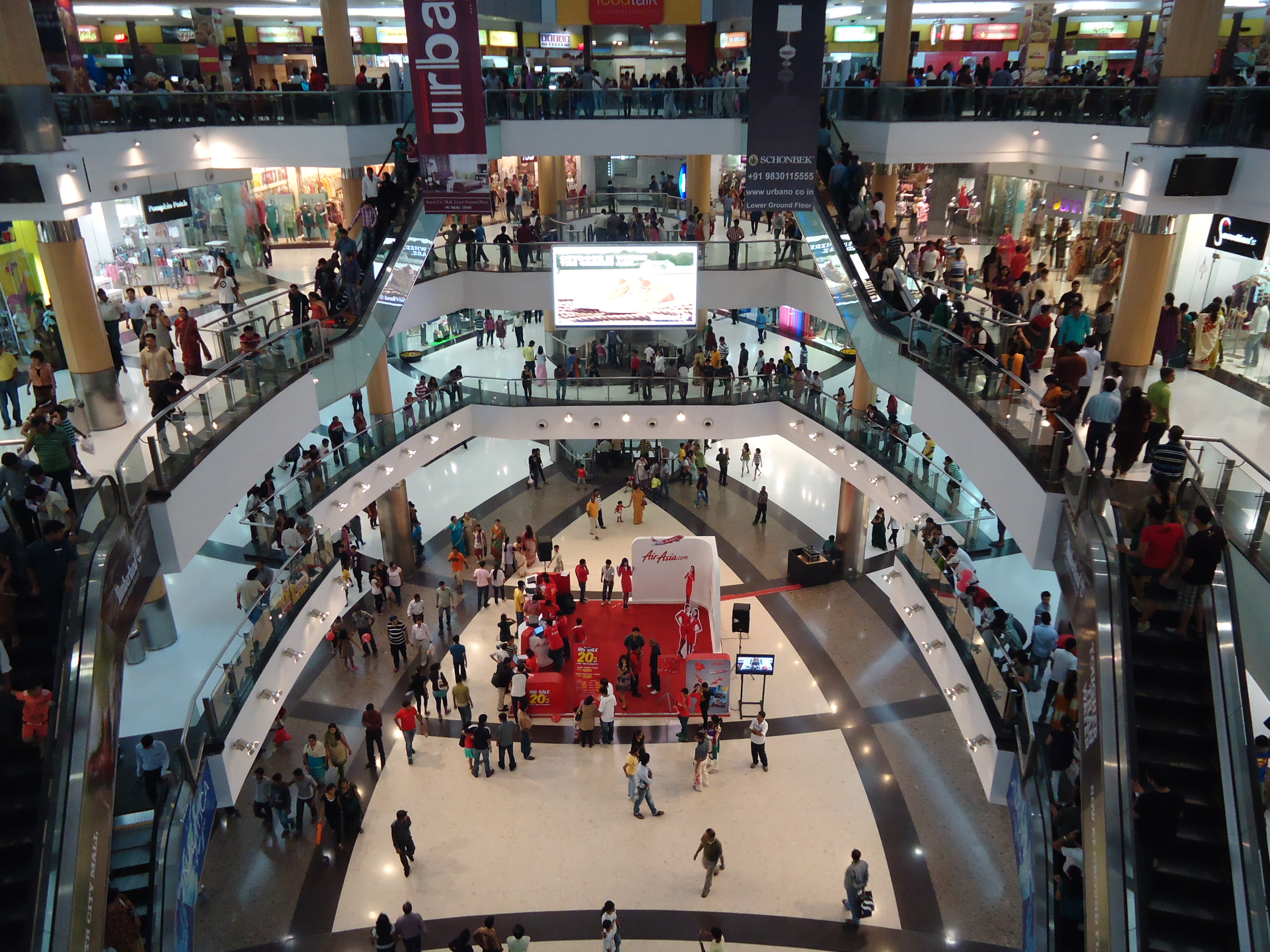 Inside view of South City Mall